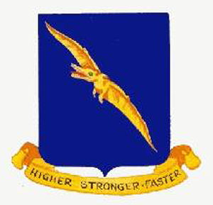 Emblem of the 92nd Bombardment Group - USAAF - WWII Source USAAF